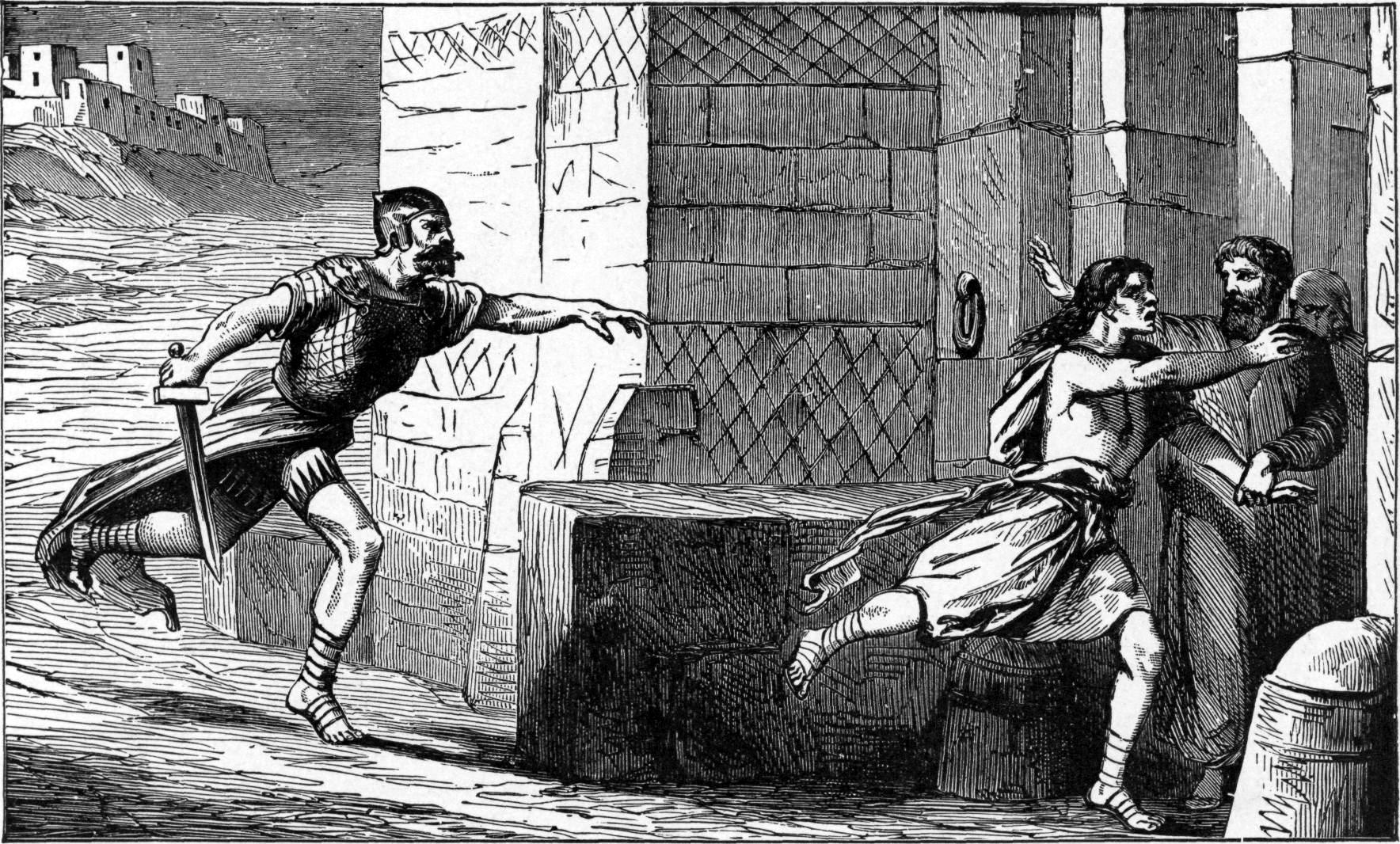 The City of Refuge. Caption: "This man who is running has no coat on. He is running with all his might. He has thrown away his coat so that he could run the faster. He was in the woods cutting down a tree, and his axe slipped out of his hand and struck another man who was standing near, so that he died. He did not mean to hurt the man, and he is very sorry for it. But now the dead man's brother is running after him with a sword in his hand to kill him. The brother does not wait to ask whether the man did it on purpose. But he is very angry. He will kill him with his sword if he can catch him. But he cannot catch him, for he has reached the gate of the city, and there a kind man has caught him by the hand. He will take him into the city and give him a house to live in where no one can hurt him. For this is the city of refuge. It is the place where a person who has killed another by accident may come and be safe. But if the man had killed the other one on purpose, and because he hated him, then they would not take him." Illustration from the 1897 Bible Pictures and What They Teach Us: Containing 400 Illustrations from the Old and New Testaments: With brief descriptions by Charles Foster